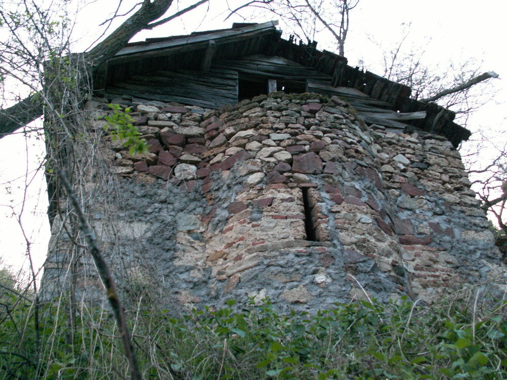 Zabel monastery Saint Dimitar, Bulgaria.